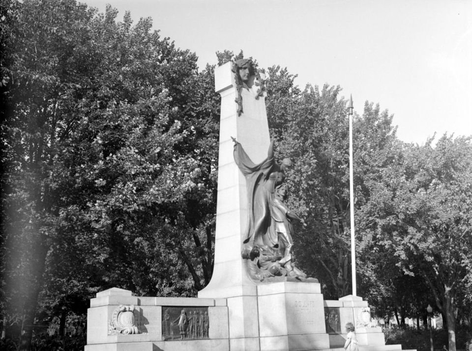 Pierrette Lambert stands before the monument of Dollard des Ormeaux made by sculptor Alfred Laliberté at Lafontaine Park in Montreal.